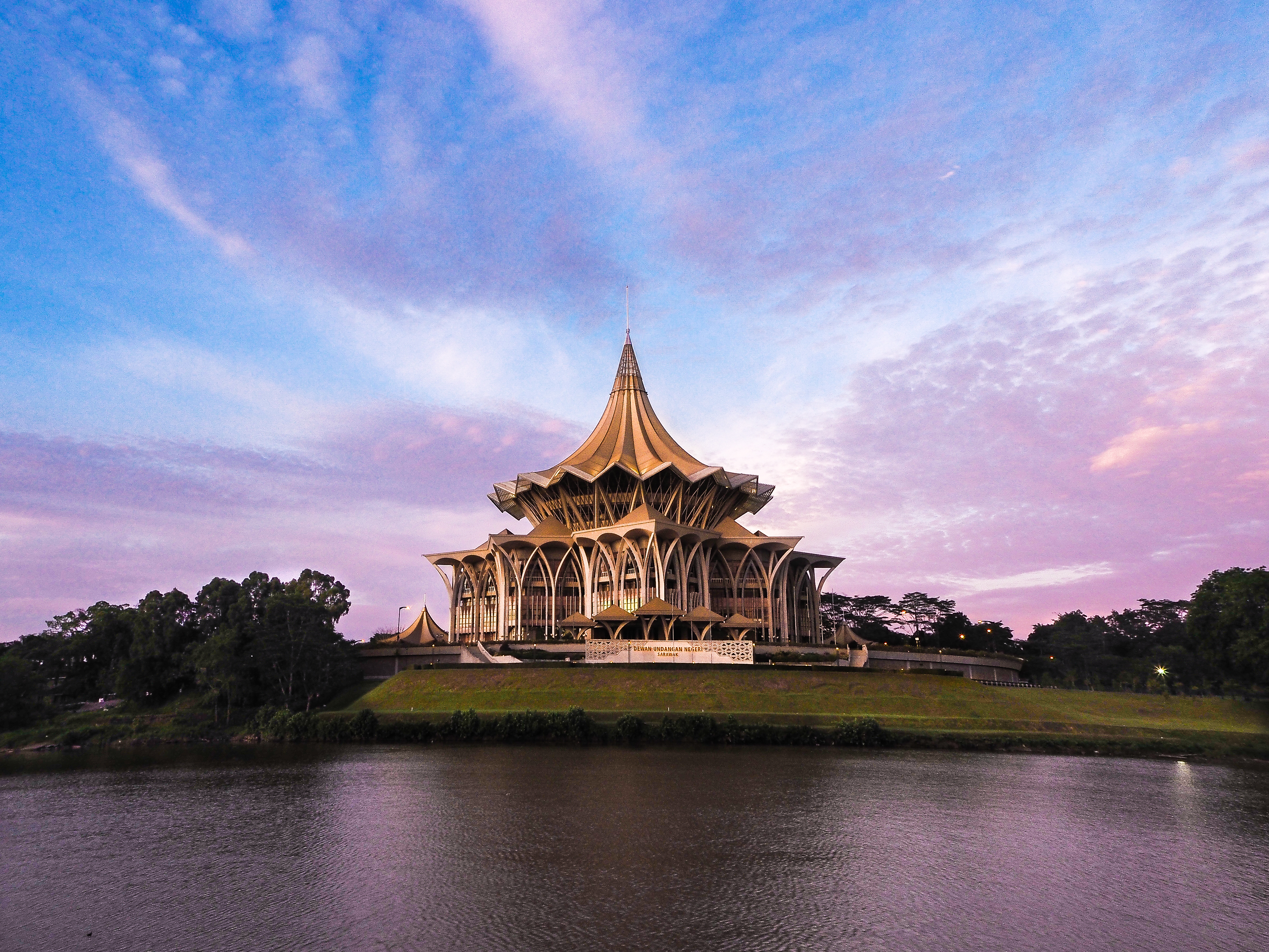 Sarawak New Parliament Building